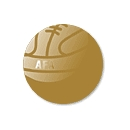 The former crest of the Antigua and Barbuda Football Assocation.